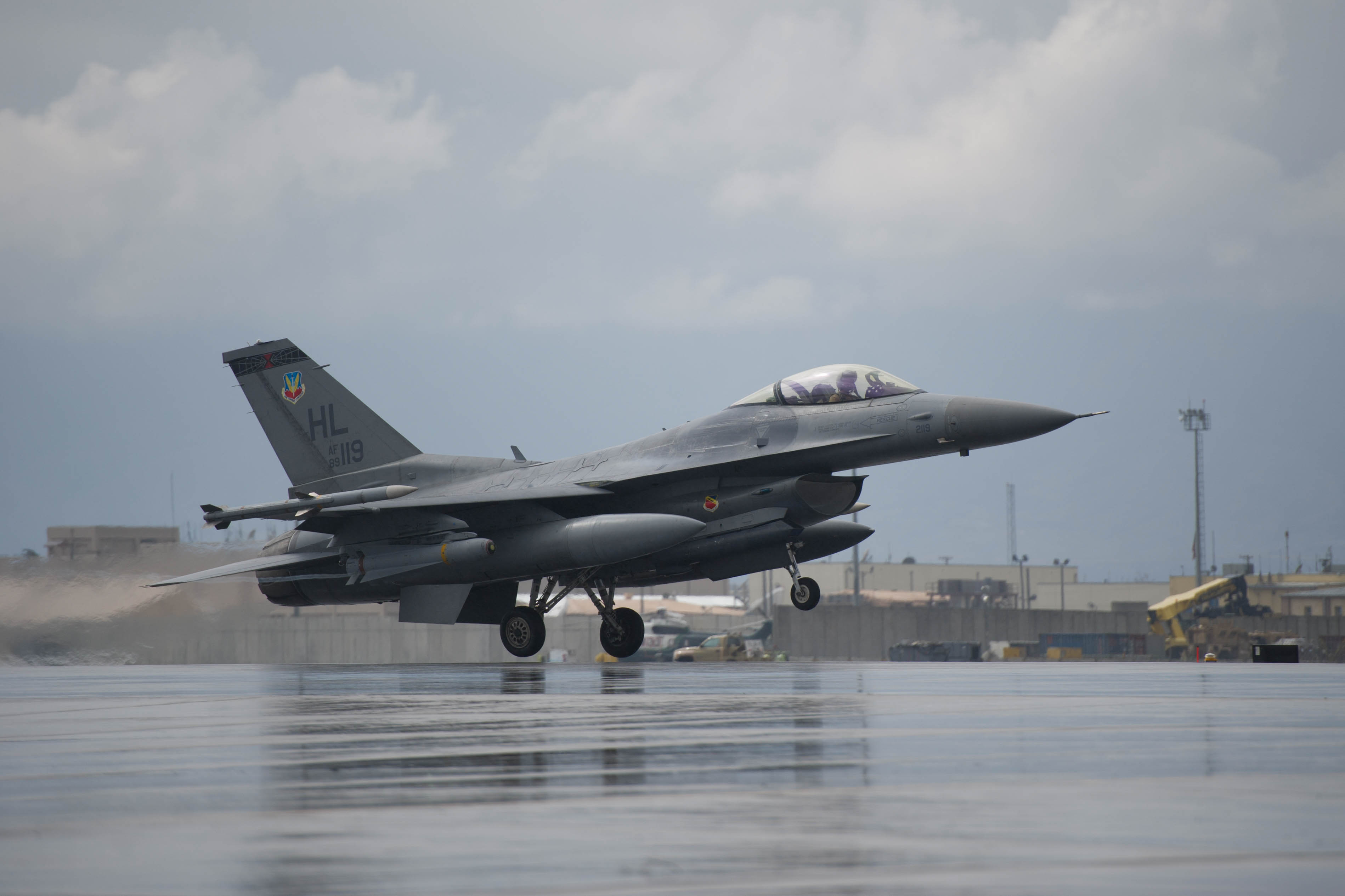 Capt. Tim Six, a 421st Expeditionary Fighter Squadron pilot, takes off for a combat sortie in an F-16 Fighting Falcon at Bagram Airfield, Afghanistan, March 14, 2016. The 421st EFS, based out of Bagram Airfield, is the only dedicated fighter squadron in the country and continuously supports Operation Freedom’s Sentinel and NATO’s Resolute Support missions. (U.S. Air Force photo/Tech. Sgt. Robert Cloys)